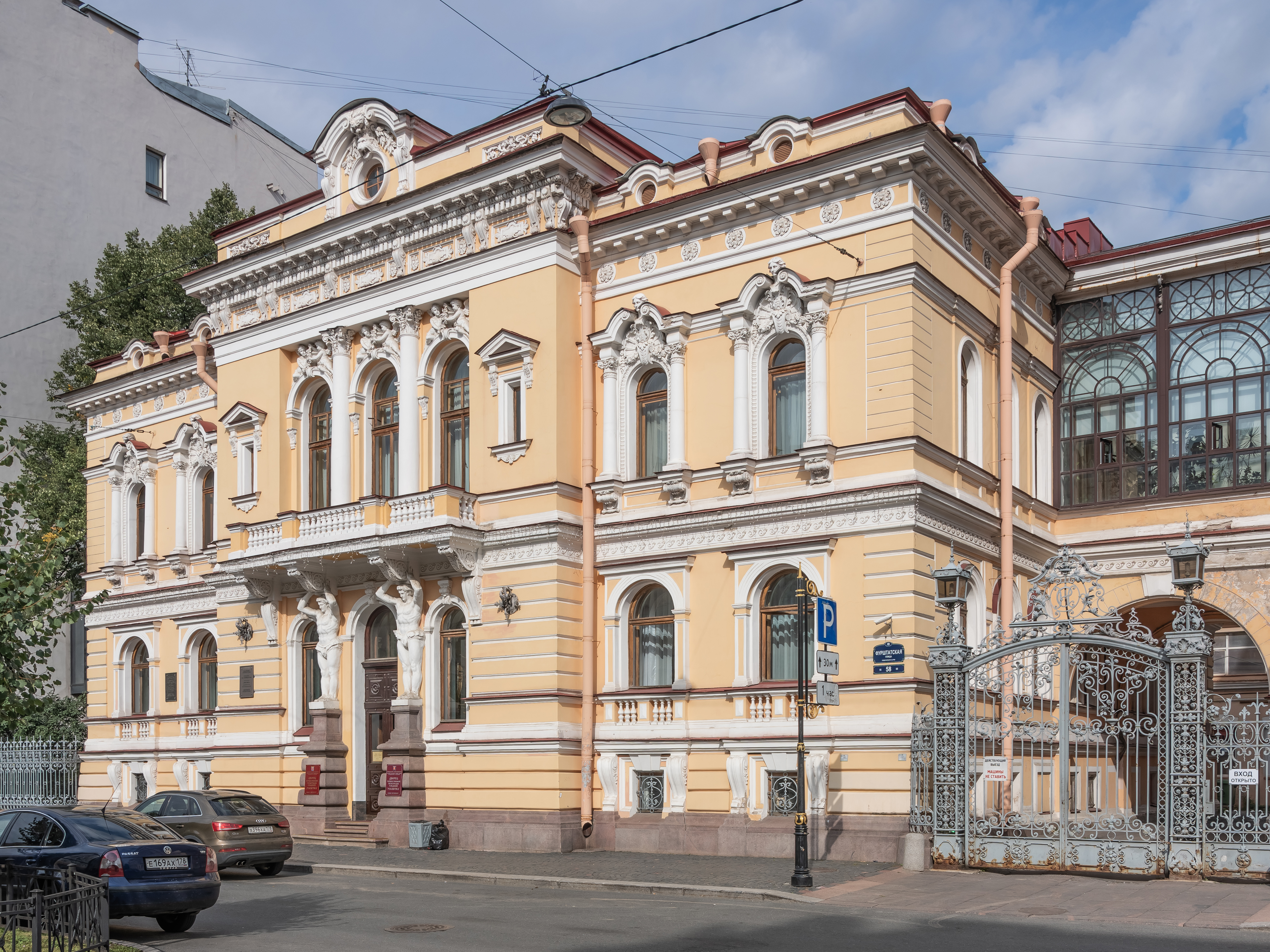 Building at Furshtatskaya Street 58 (Spiridonov Mansion) in Saint Petersburg, Russia